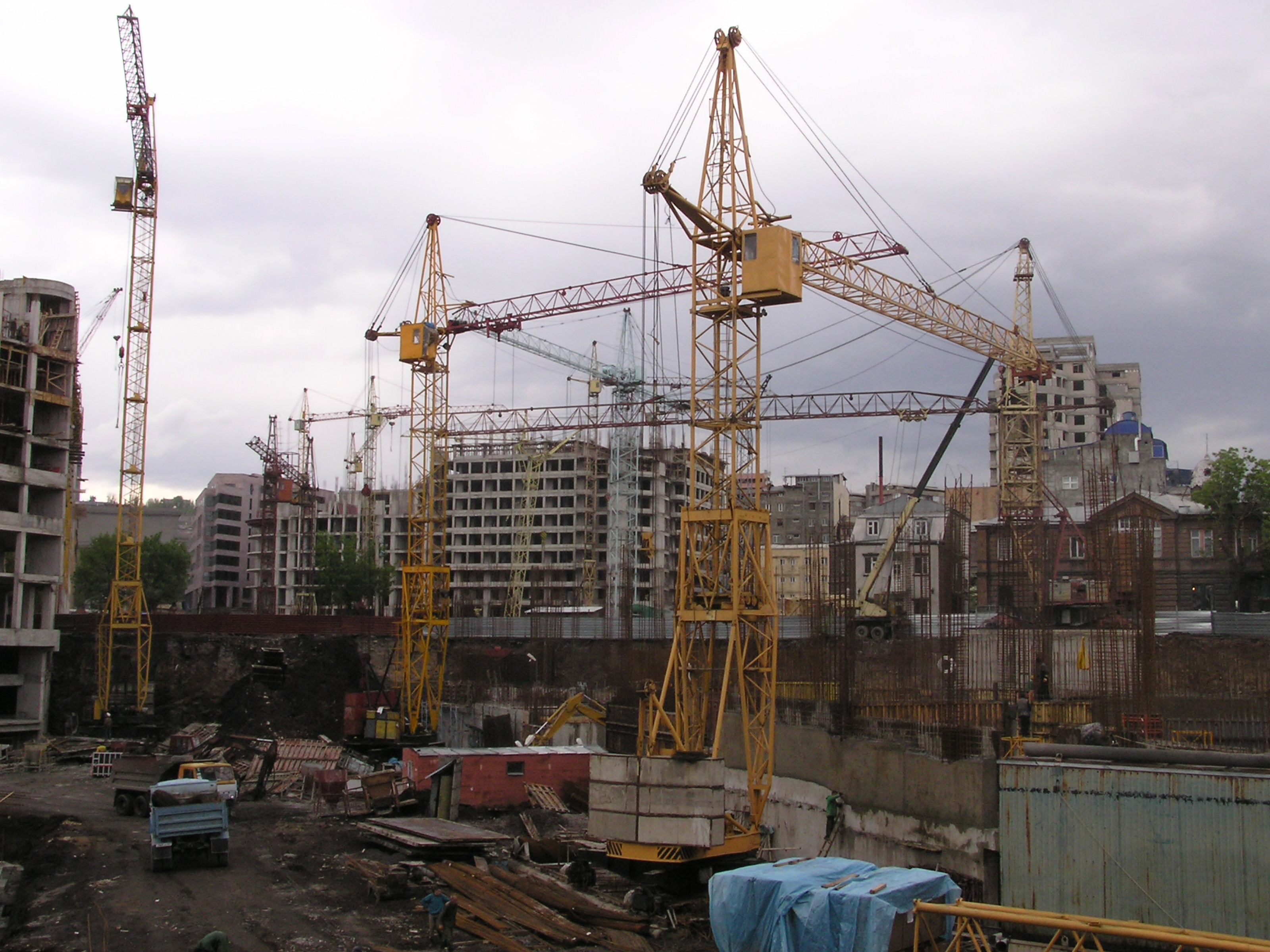 Construction of Northern Avenue in Yerevan